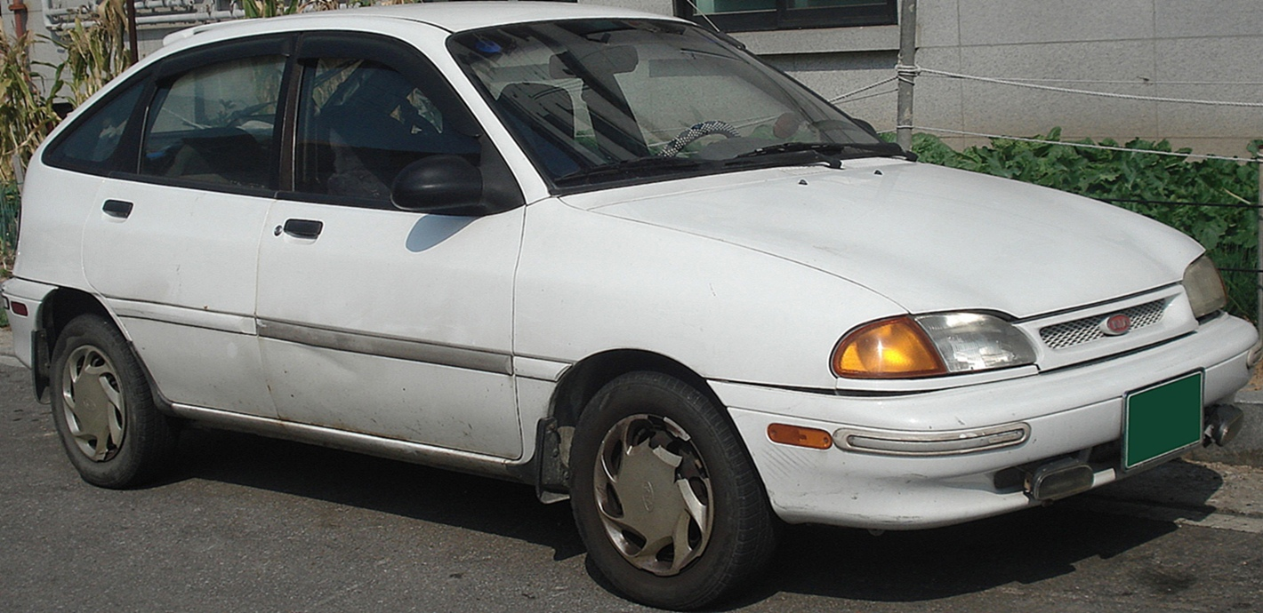 Kia Avella